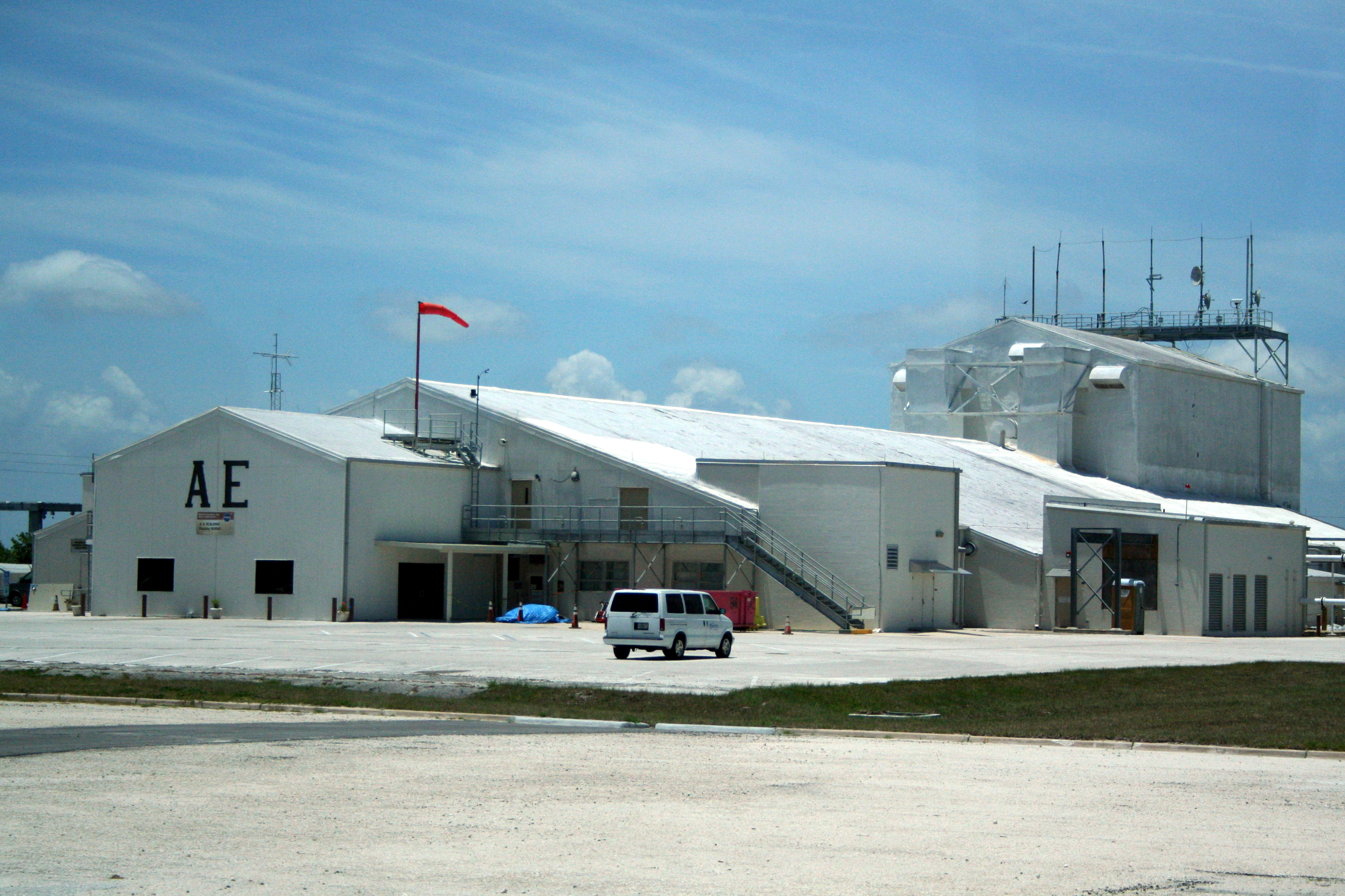 CCAFS Hangar AE, now the NASA Spacecraft Assembly and Checkout Building and Launch Vehicle Data Center